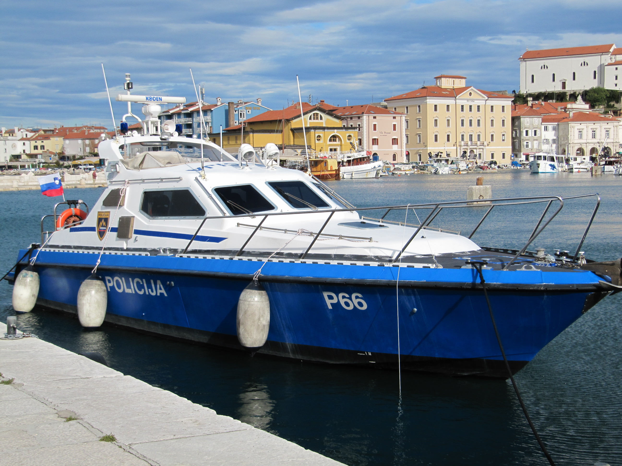 Slovenian coastguard boat